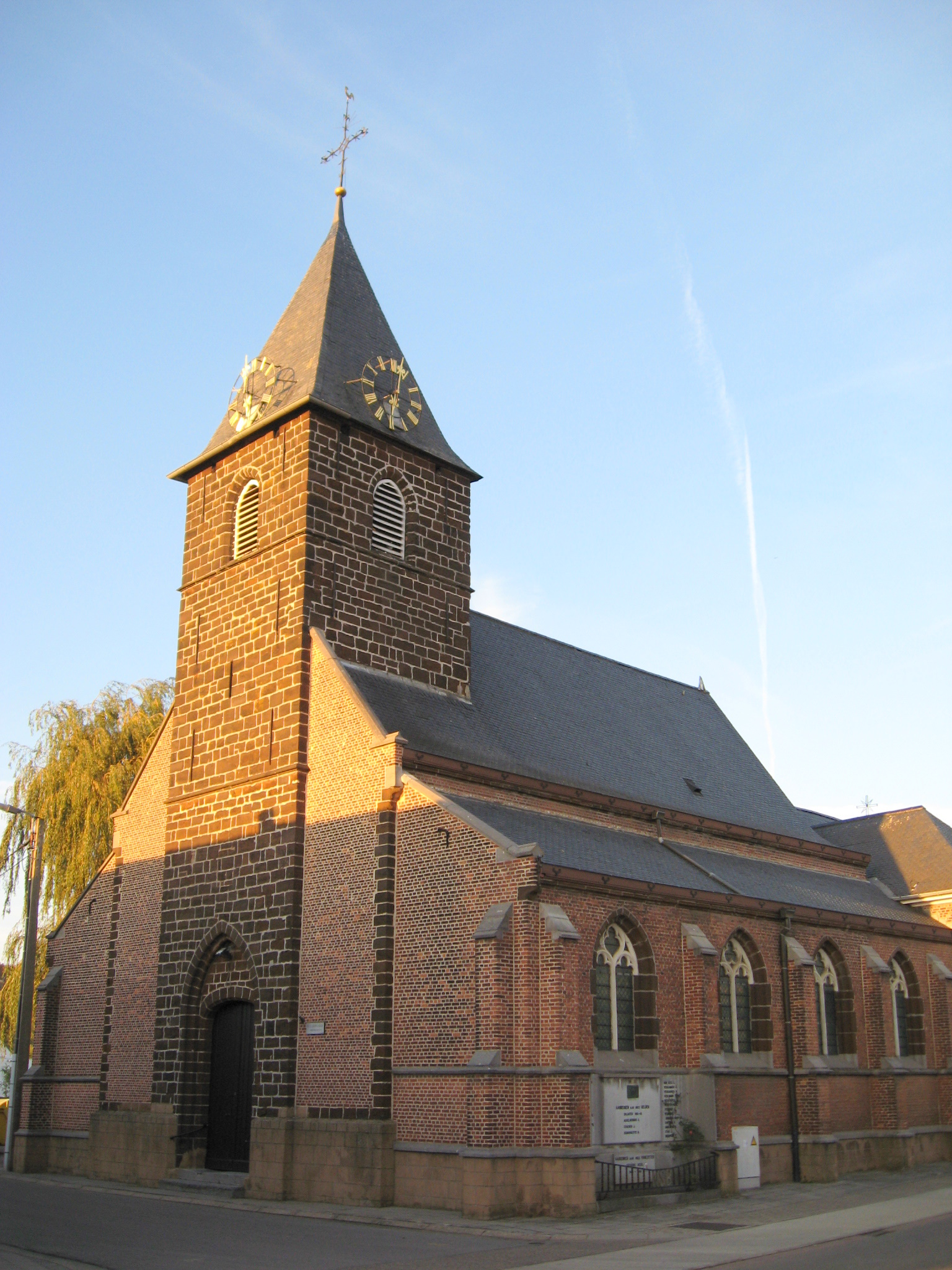 Church of Saint Cornelius in Gelrode, Aarschot, Flemish Brabant, Belgium